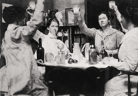 Photograph shows Violet Oakley, Jessie Willcox Smith, Elizabeth Shippen Green, and Henrietta Cozens seated around a table, raising their glasses. Oakley and Smith are facing the camera, the other two are turned partially away, ca. 1901 / unidentified photographer. Violet Oakley papers, Archives of American Art, Smithsonian Institution.